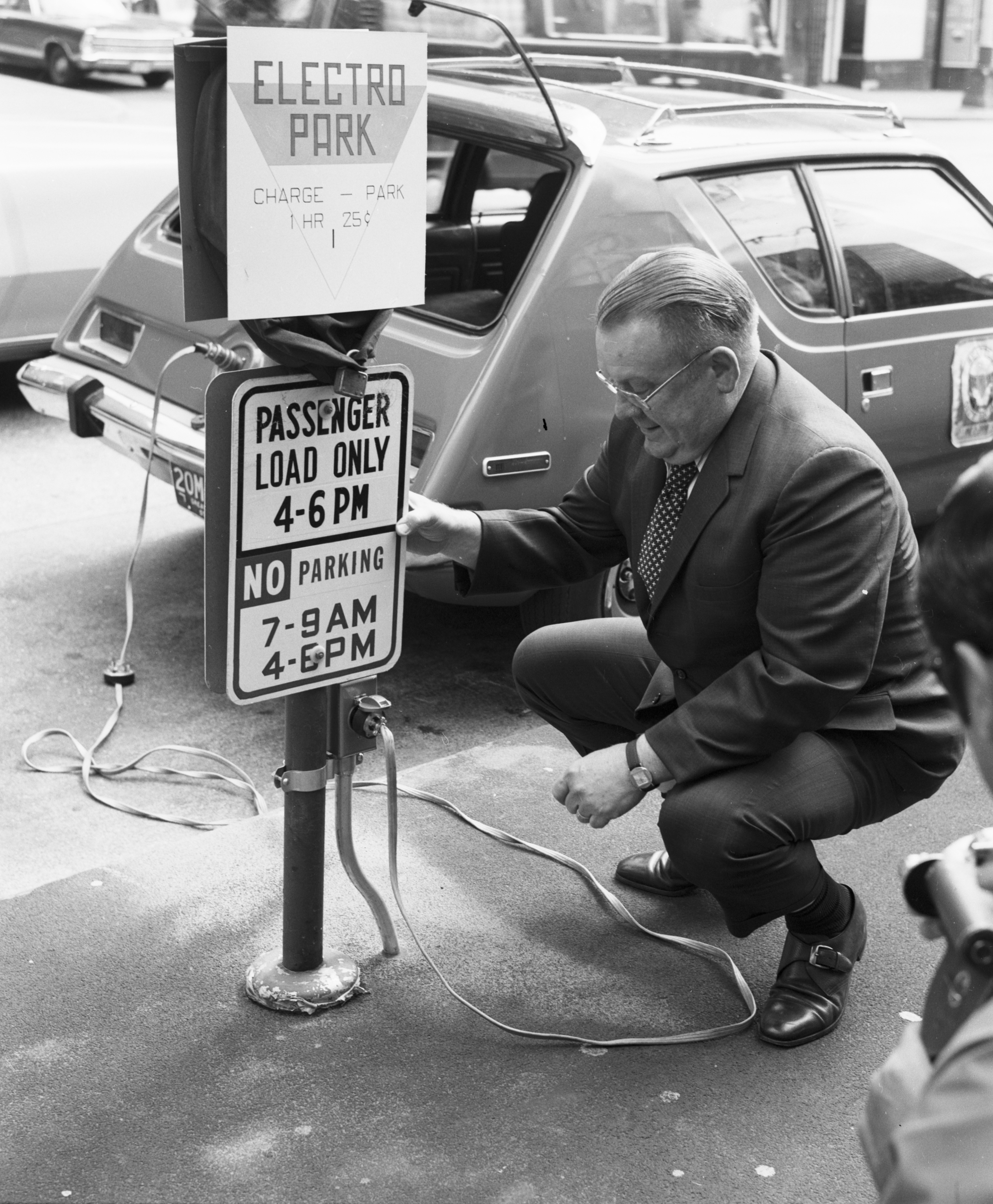 Seattle City Light Superintendent Gordon Vickery with prototype electric car, 1973.